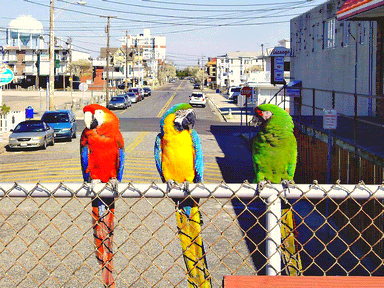 Amiga HAM example image. Original image